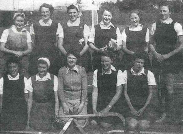 The intermediate division of Lomas A.C. women's field hockey team. Back Row: Evelyn Gooche, Peggy Garden, Annabelle Tabor, Joan Harrison, Doreen Peebles, Doreen Dahl. Bootom Row: Betrice Egües, Sheila Woodward, Vilma Davies, Sidsel Stand and Elda Edgar.